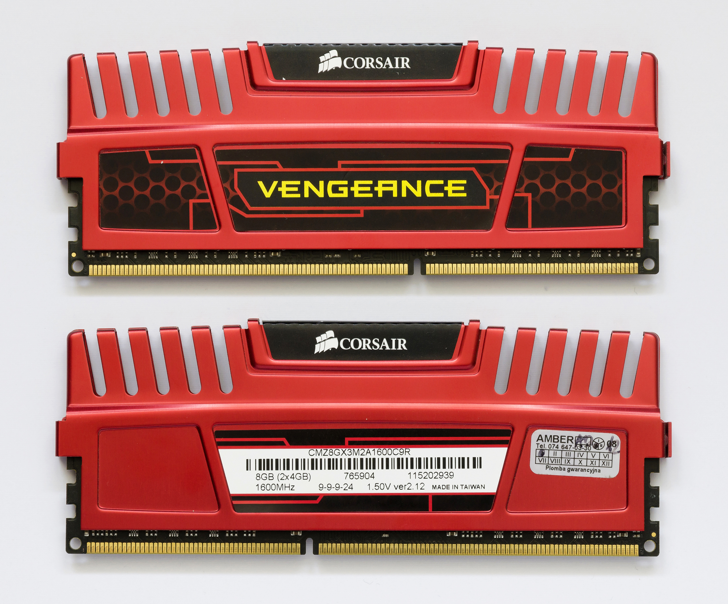 DDR3 memory Corsair Vengeance 2x4GB, 1600MHz